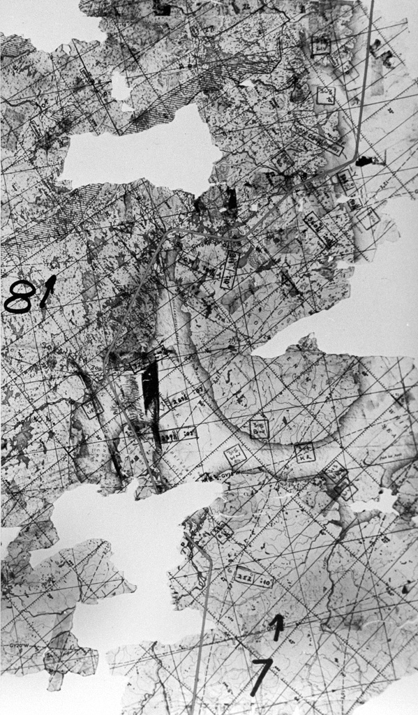 “Exhibition of remains of shot down American U-2 spy plane”. An exhibition of remains of the American U-2 spy plane shot down on May 1, 1960 near Sverdlovsk (now Yekaterinburg). The Gorky Central Culture and Recreation Park. Part of an aviation chart that belonged to pilot Francis Gary Powers.